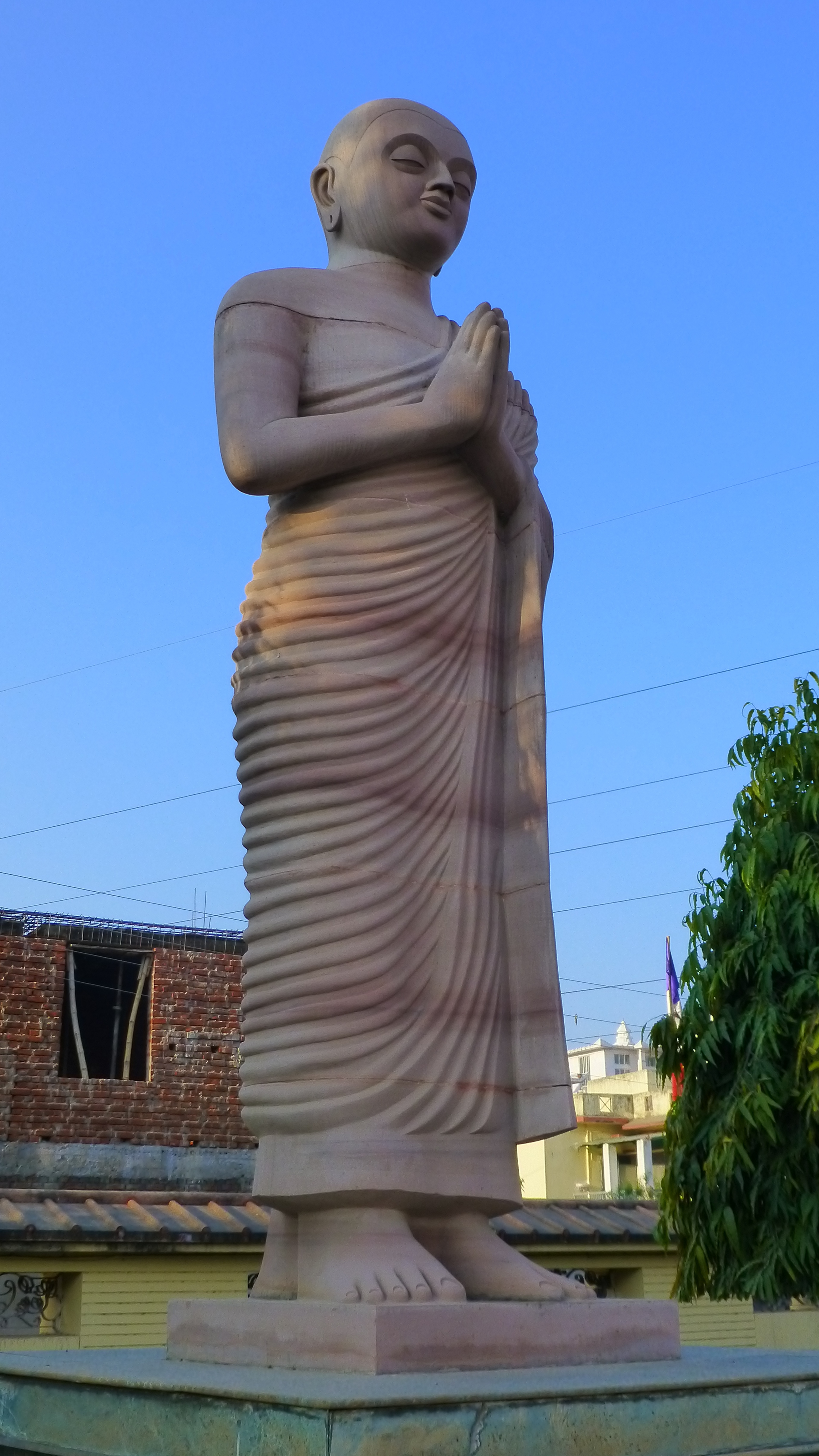 06 Sariputta, in Bodhgaya, Bihar Photograph of the Daibutsu Buddha statue at Bodh Gaya in Bihar taken by Anandajoti.